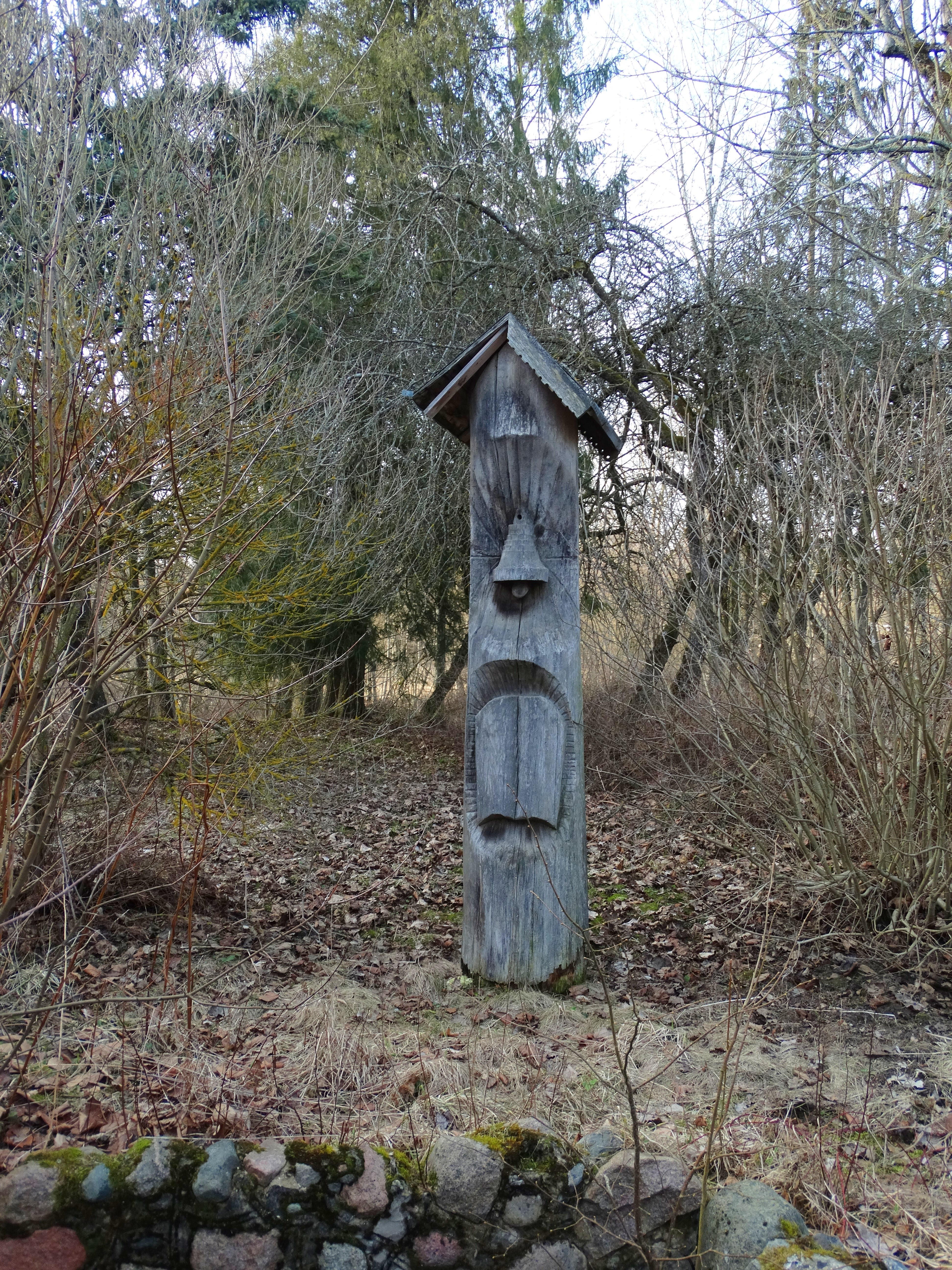 Former school in Stakiai, Jurbarkas district, Lithuania